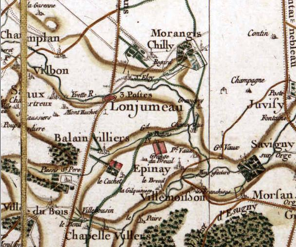 Map of Longjumeau and its region from the 18th century, prepared by César-François Cassini de Thury, now: Essonne, France